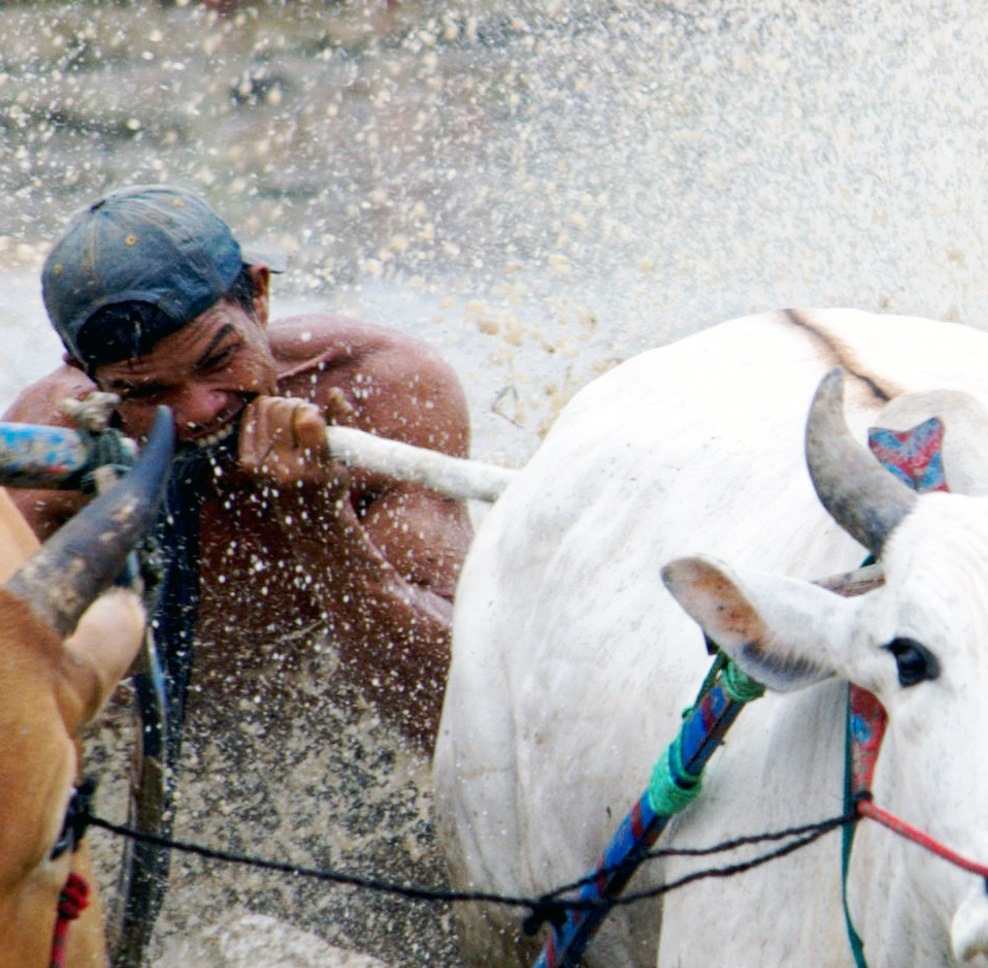 Jockey biting a bull's tail during Pacu Jawi